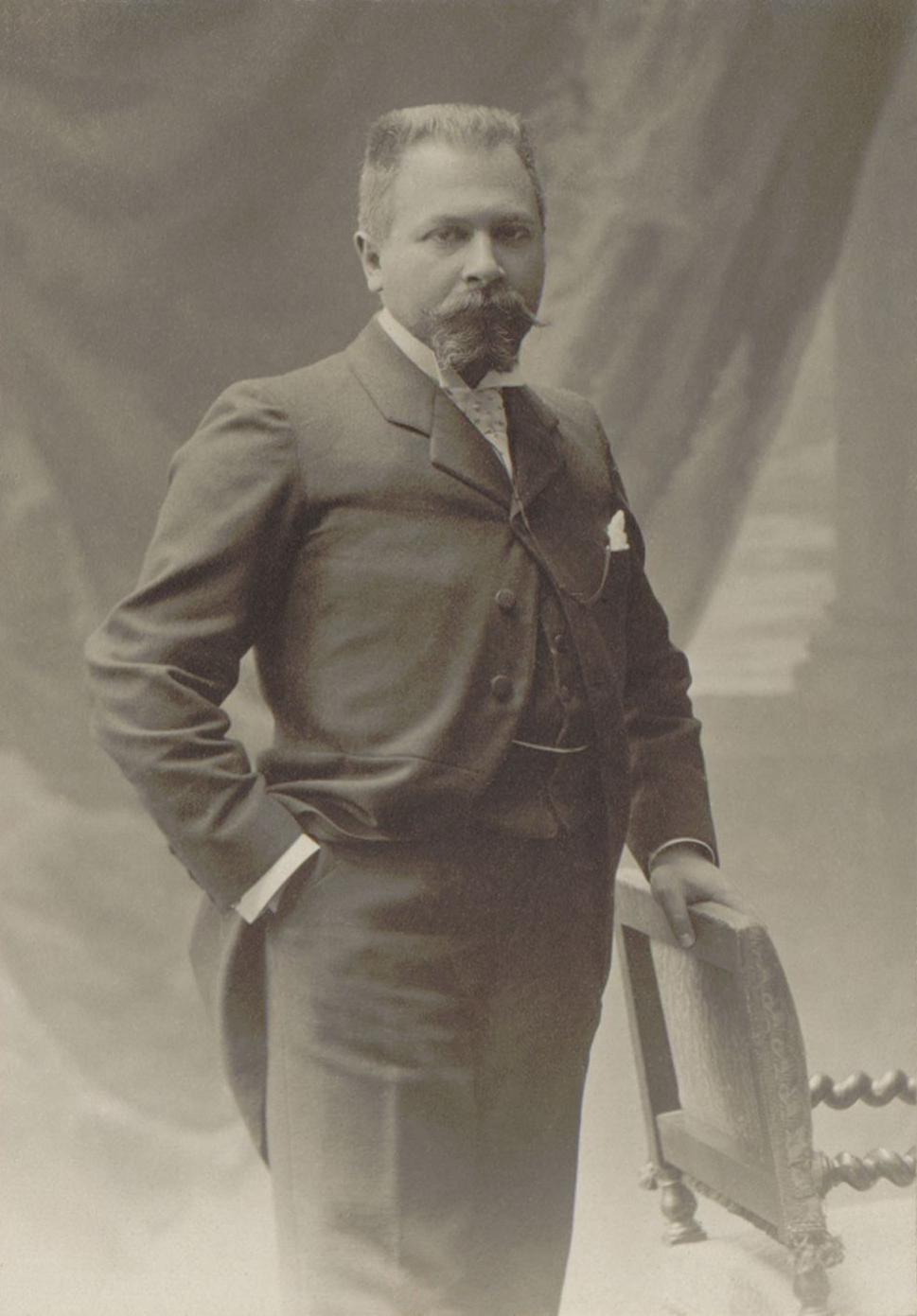 Bernardino Camilo Cincinato da Costa (1866-1930), as depicted on an album of the Portuguese section of the Exposition Universelle Internationale (Paris, 1900).